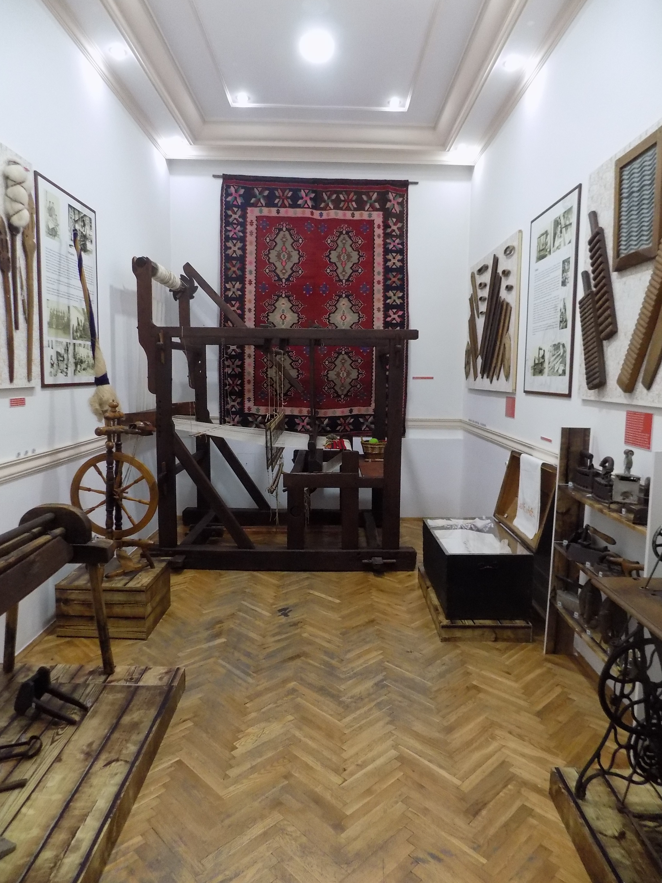 Exhibited objects show the activity of weaving